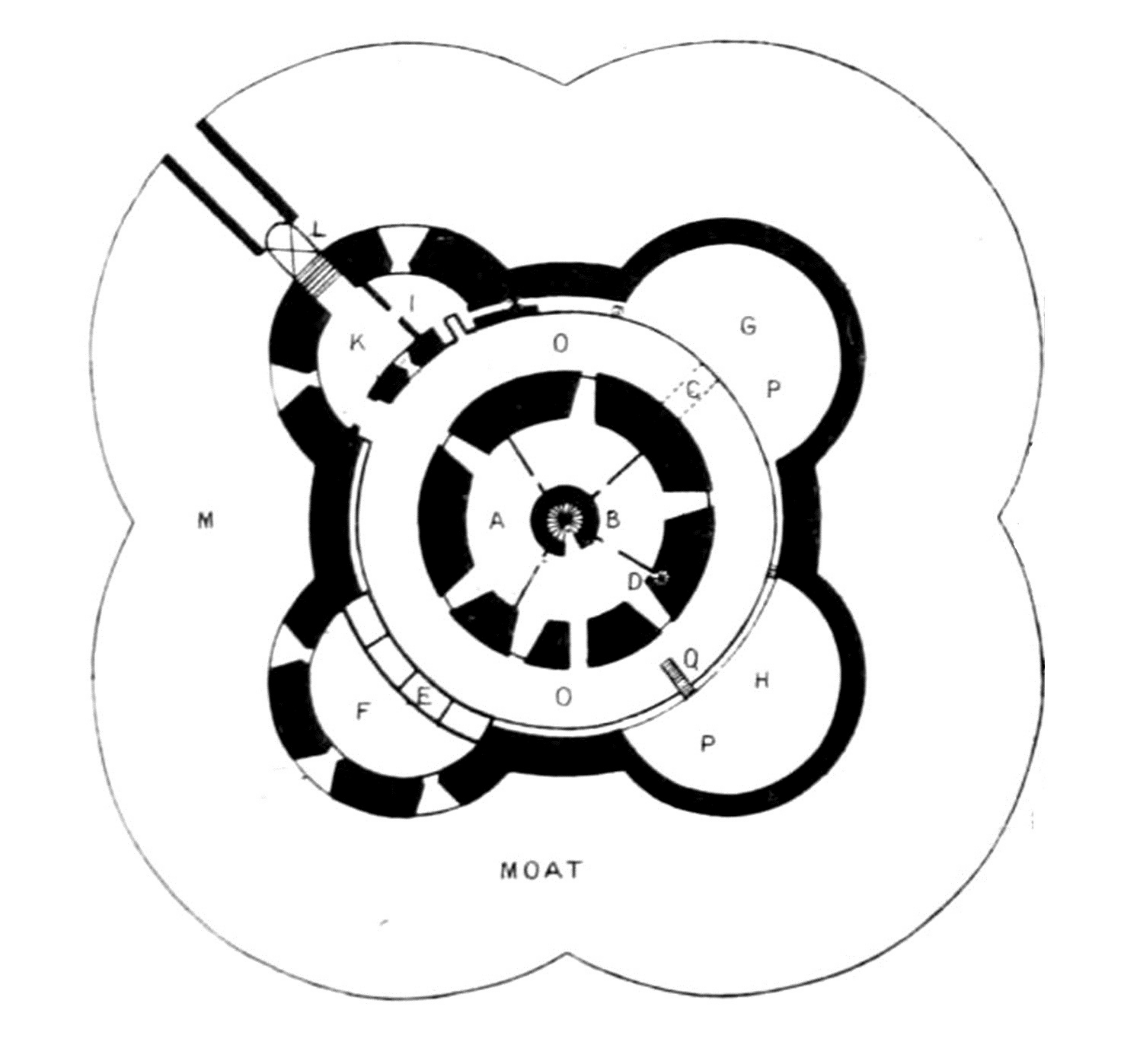 Diagram of Sandown Castle